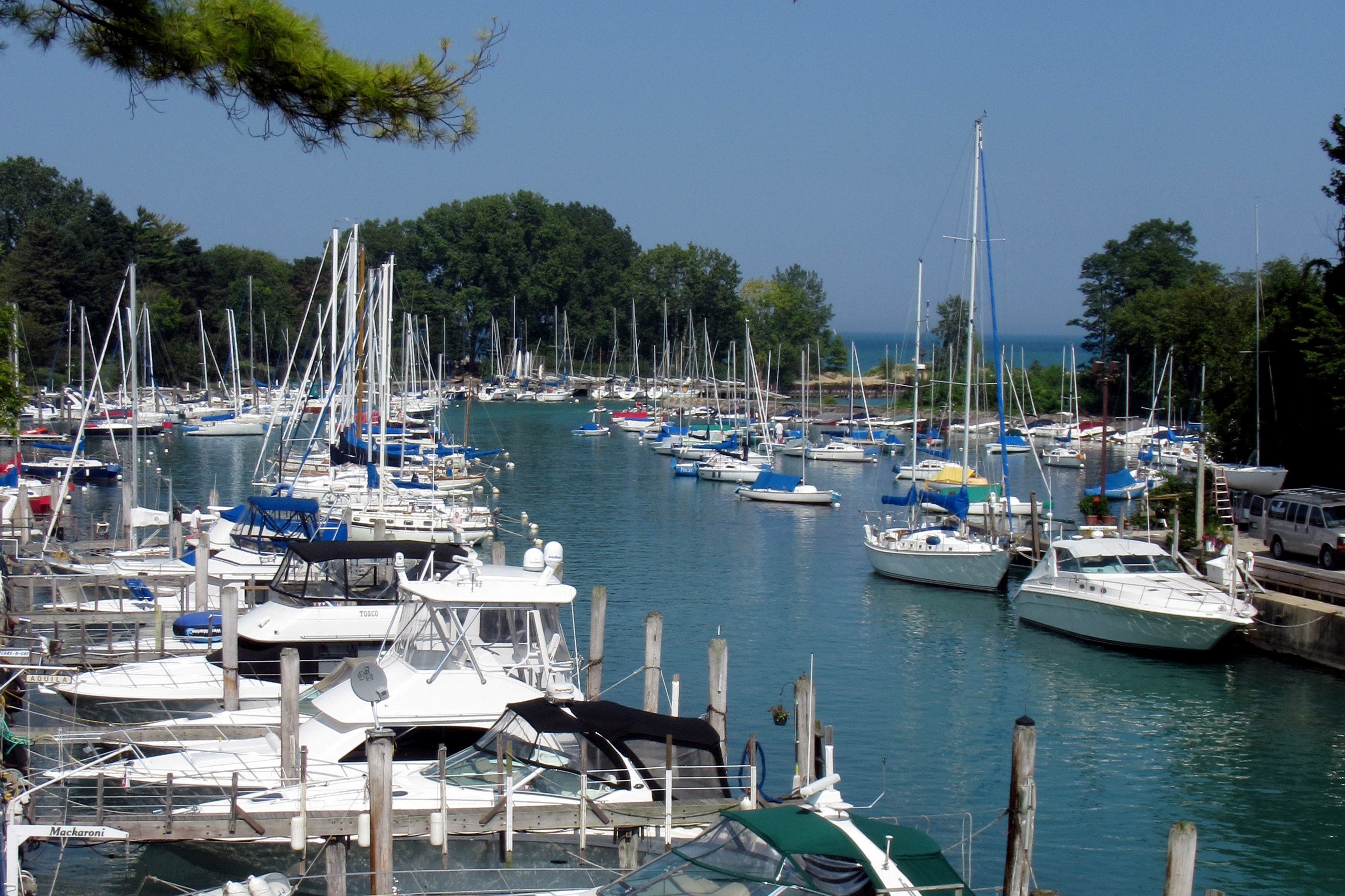 Yachts Park in Chicago River